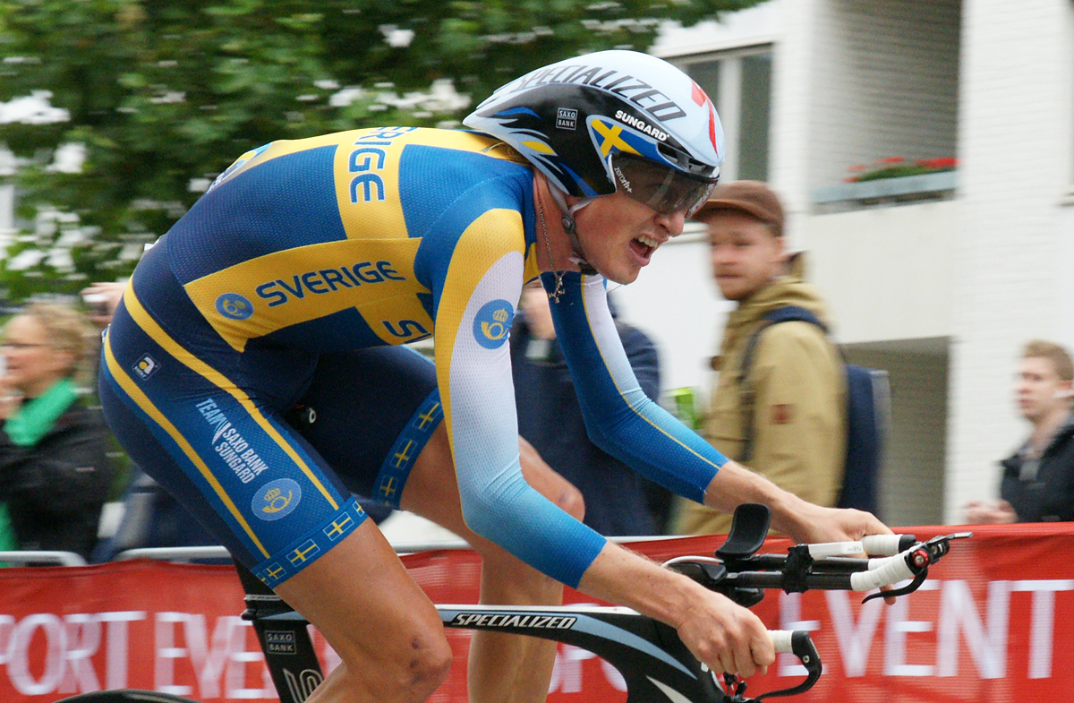 2011 UCI Road World Championships – Men's time trial - Gustav Larsson, Sweden